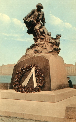 “Peter I rescues fishermen in Lahta in 1724”. The opening of a monument in 1909